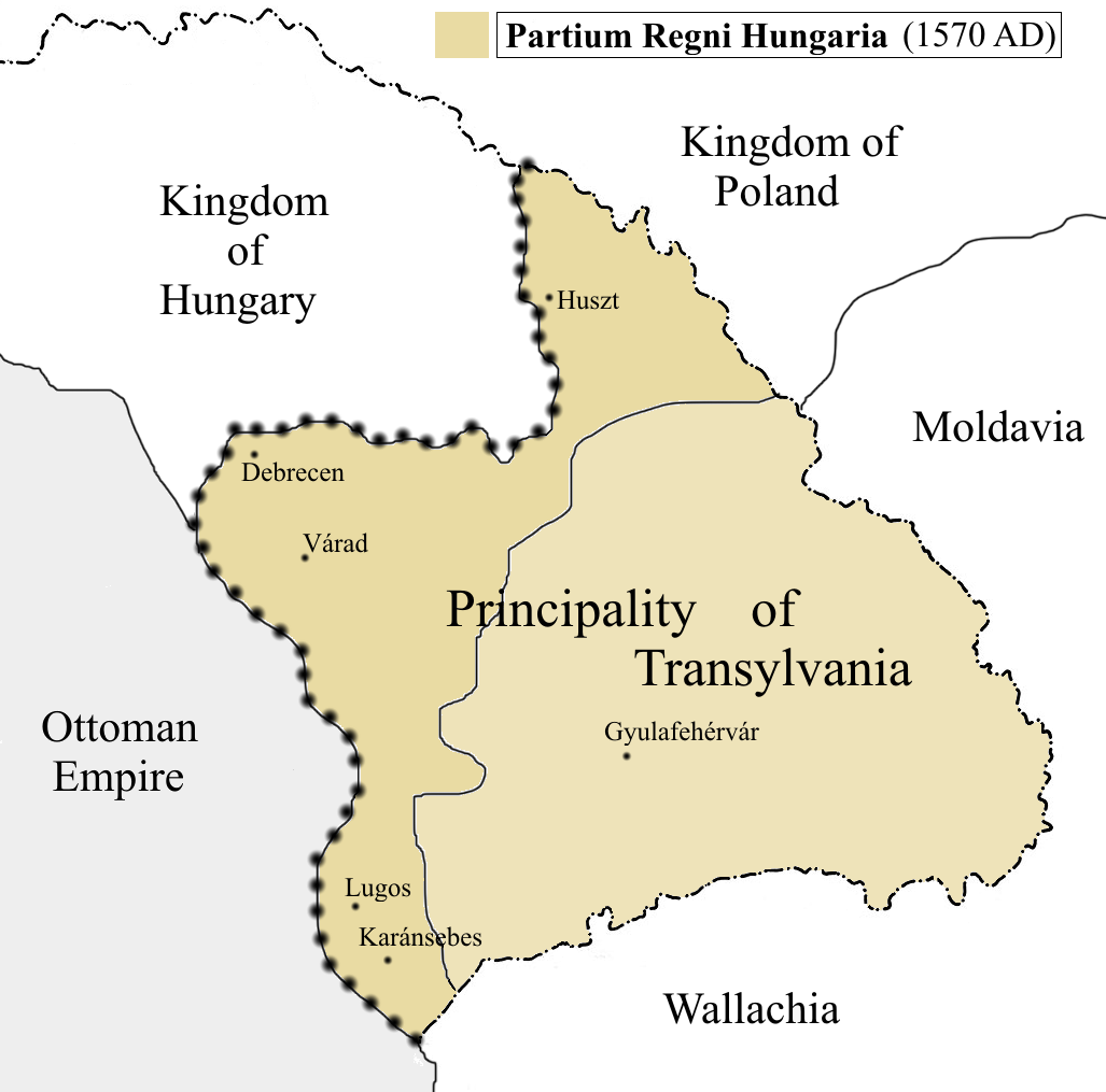 This map has been uploaded by Electionworld from to enable the Wikimedia Atlas of the World . Original uploader to was Fz22, known as Fz22 at . Electionworld is not the creator of this map. Licensing information is below.